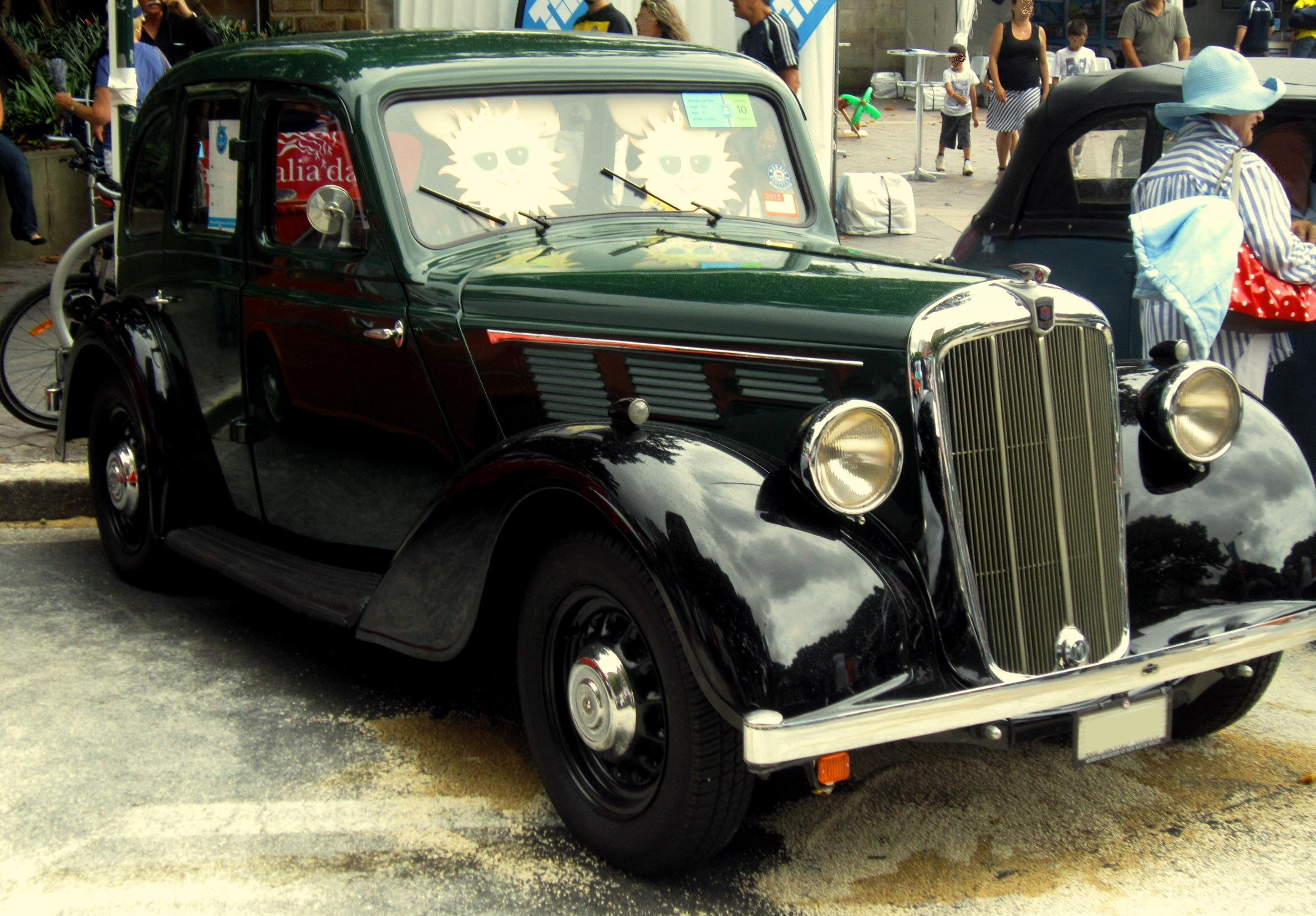 Appears to be a Morris Fourteen-Six series II 1937 Here is just a sample of over 1000 of the highlighted classics on show, on the day.! You can check out a video preview of the NRMA Motorfest 2011 highlights here; You can also check out the latest NRMA car reviews and tests here at